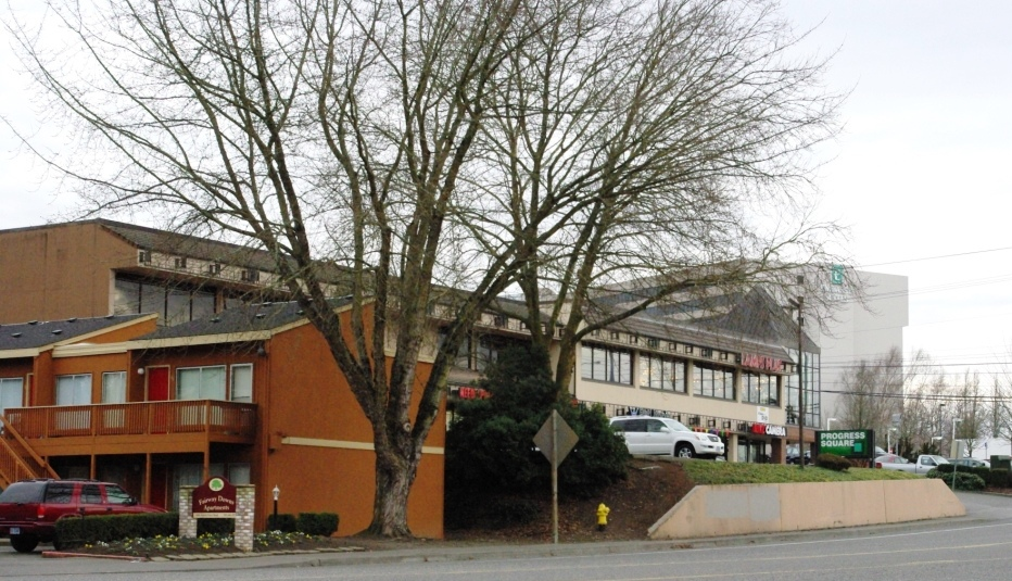 Progress, Oregon, USA. This view is looking southeast across Scholls Ferry Road just north of its intersection with Hall Blvd.